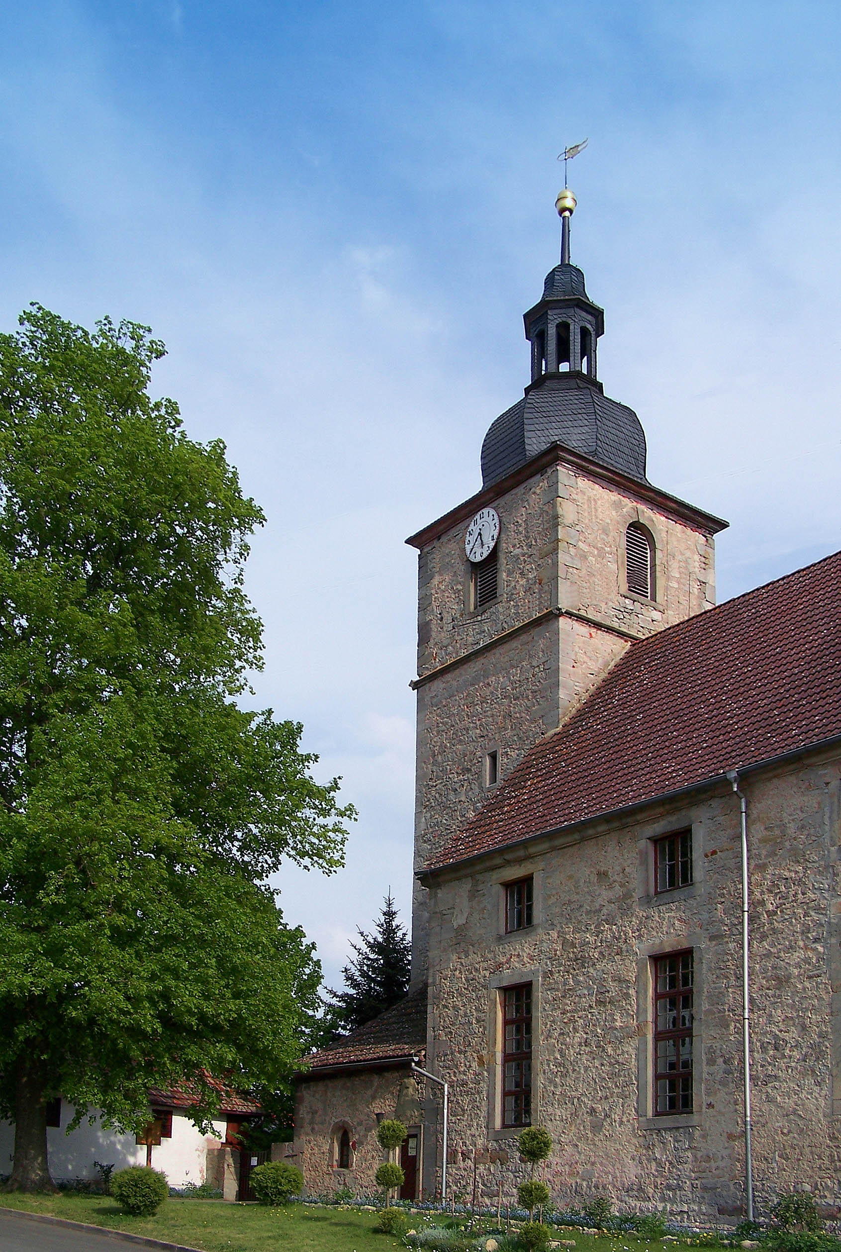 Village Church Exdorf